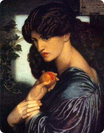 Proserpine, extract from Dante Gabriel Rossetti's painting, and Jane Burden Morris as "Proserpine"